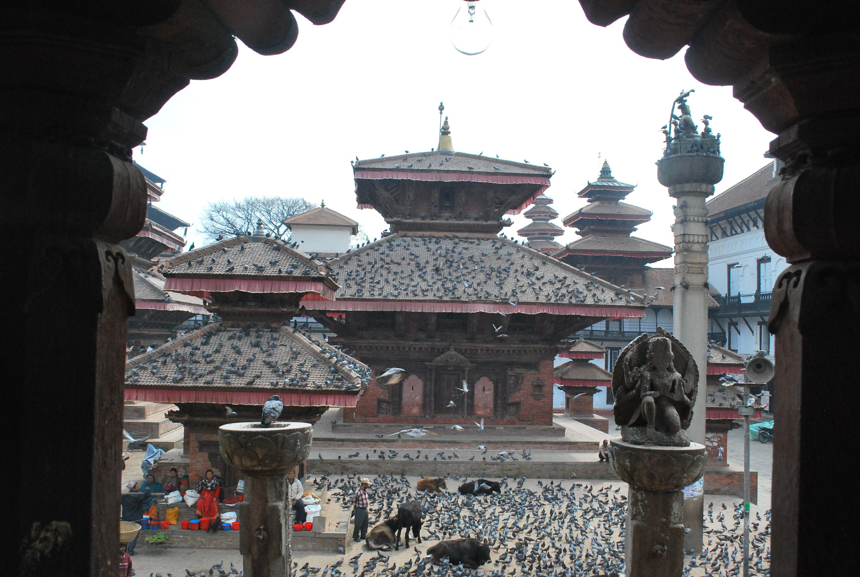 Frame shot